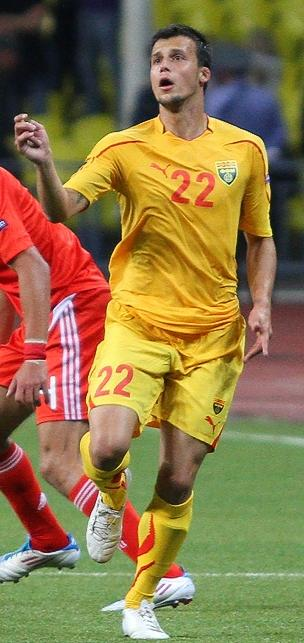 Mirko Ivanovski with Macedonia national association football team.